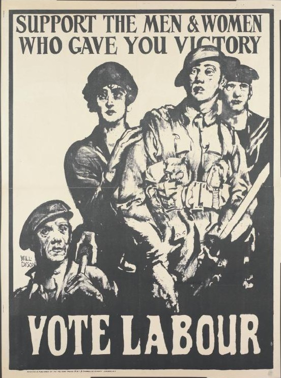 Poster : "Support the men and women who gave you victory. Vote Labour"